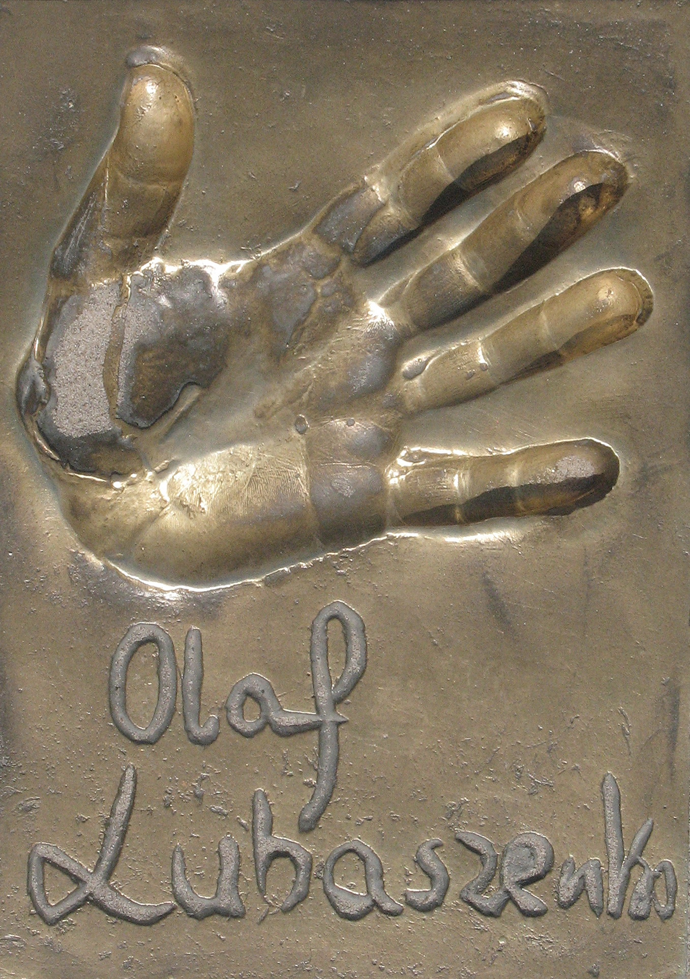 Olaf Lubaszenko - handprint and signature in Międzyzdroje.